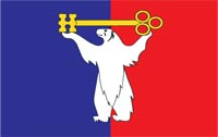 Norilsk (Krasnoyarsk kray), flag